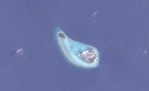 This image (Landsat 7) shows Alifushi atoll in the North province of the Maledives.